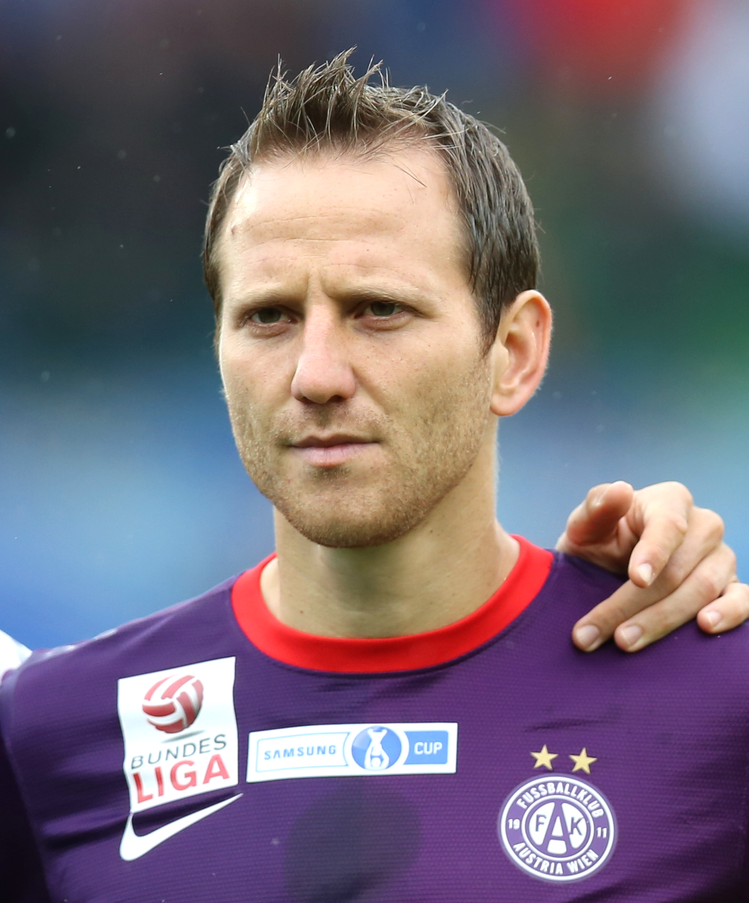 ÖFB-Cupfinale am 30. Mai 2013 im Ernst-Happel-Stadion (FC Pasching gegen FK Austria Wien 1:0). Im Bild der Stürmer Tomáš Jun (FK Austria Wien). The making of this work was supported by Wikimedia Austria. For other files made with the support of Wikimedia Austria, please see the category Supported by Wikimedia Österreich.